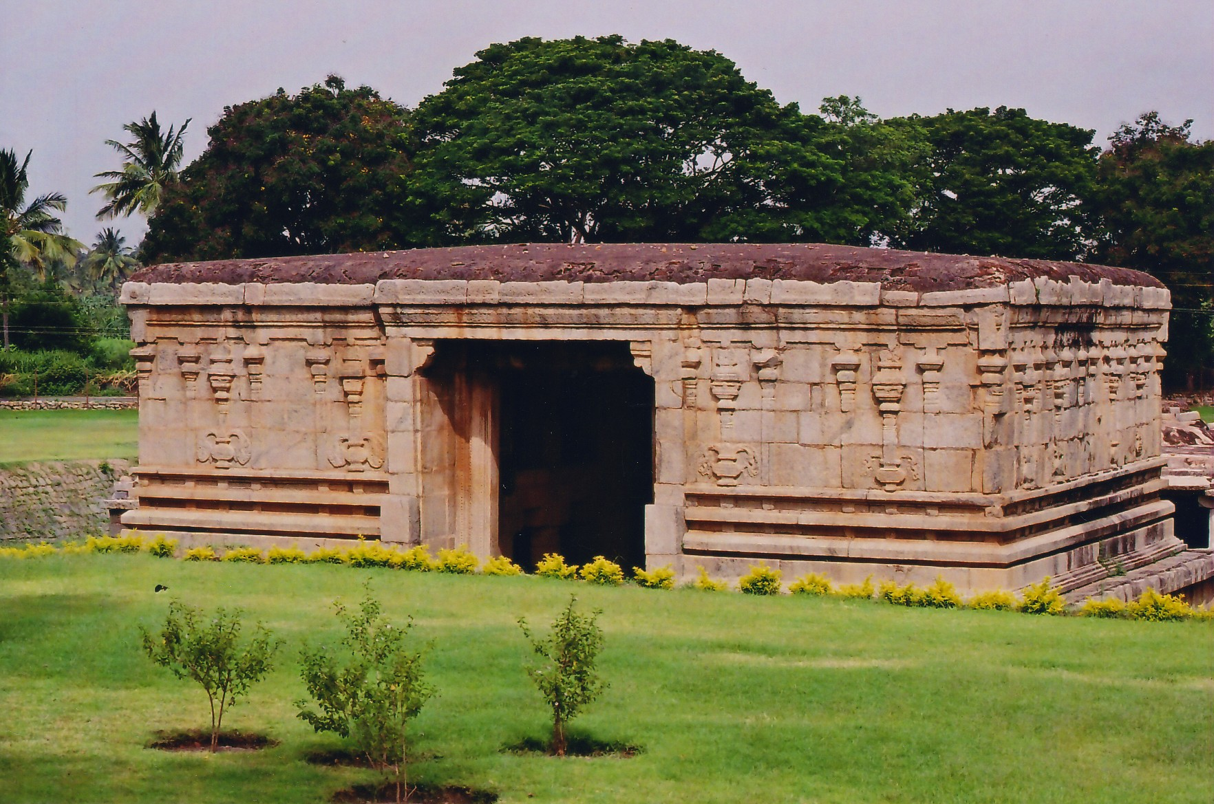 An underground Shiva Temple at Hampi, Karnataka state, India